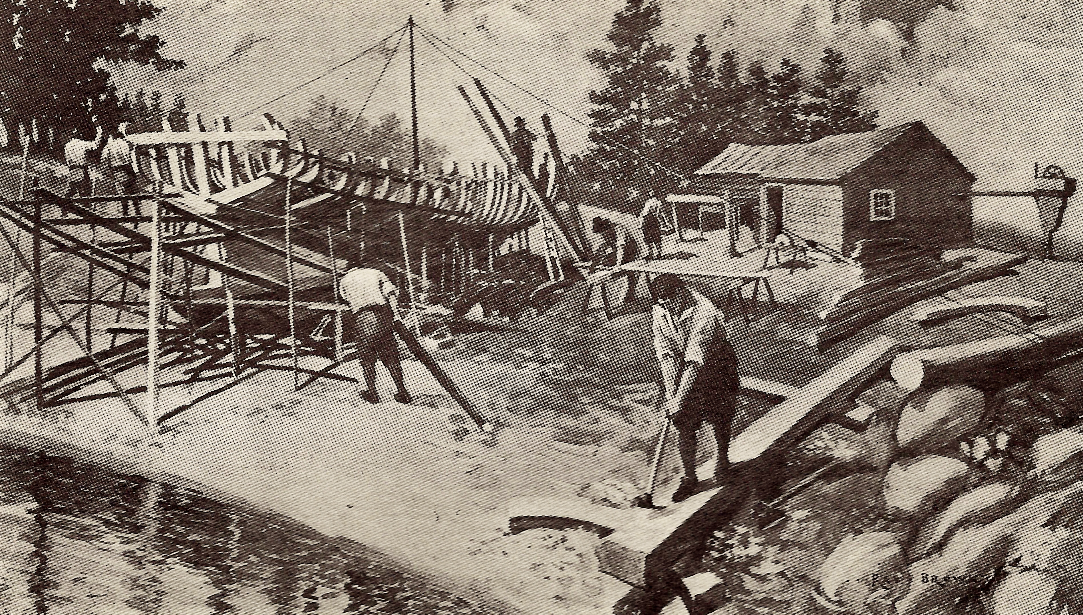 Early Ship Yard